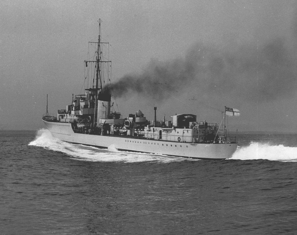 Stern view of HMS Kelly during sea trials, 1939 (TWAM ref. 2931). This image is taken from an album produced by the world famous shipbuilding and engineering firm of Hawthorn Leslie. The album gives us a fascinating glimpse of life at the company's shipyard at Hebburn from the late 1930s to the 1960s. There are remarkable images of the men at work in the yard and a poignant series showing the terrible damage caused during the Second World War to HMS Kelly, one of Hawthorn Leslie's best loved ships. This particular collection of images follows the Birth and ultimate Death of a ship. From the craft and pride in its production and the joy in its performance, to the devastation and price of its destruction. A blog about this fascinating collection can been viewed here on the Tyne & Wear Archives & Museums website. (Copyright) We're happy for you to share these digital images within the spirit of The Commons. Please cite 'Tyne & Wear Archives & Museums' when reusing. Certain restrictions on high quality reproductions and commercial use of the original physical version apply though; if you're unsure please